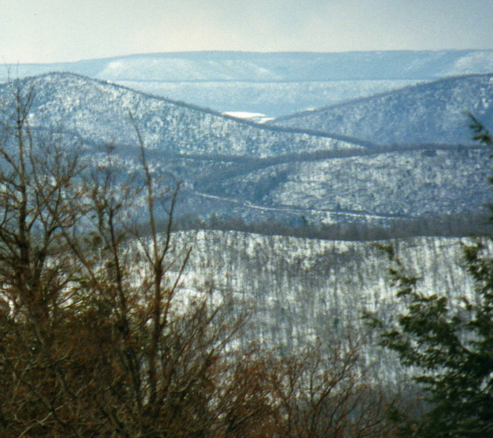 View west from Clarks Knob in Pennsylvania's ridge and valley region.